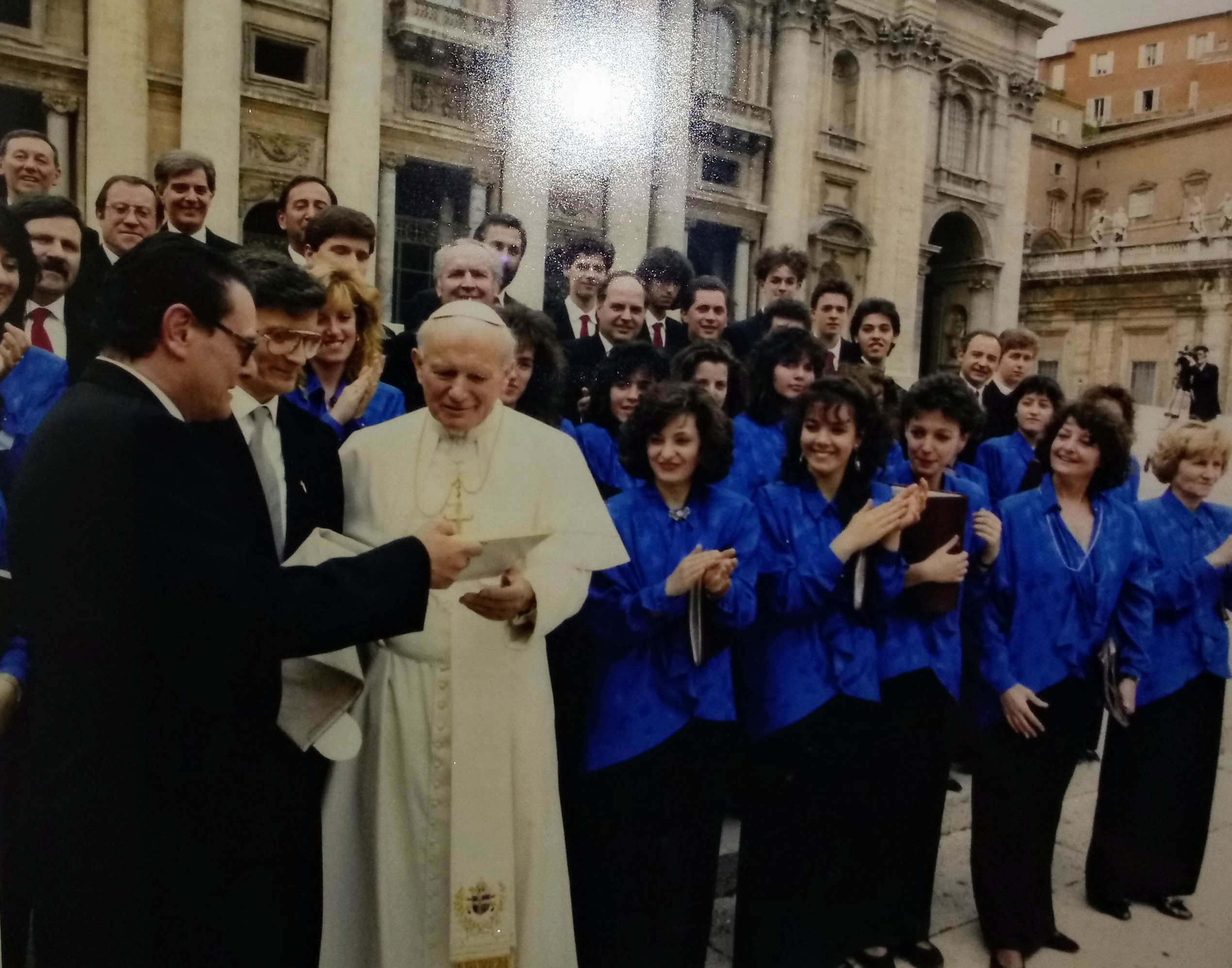 Corale Giulio bonagiunta in St Peter’s Square, invited by Pope John Paul II to sing